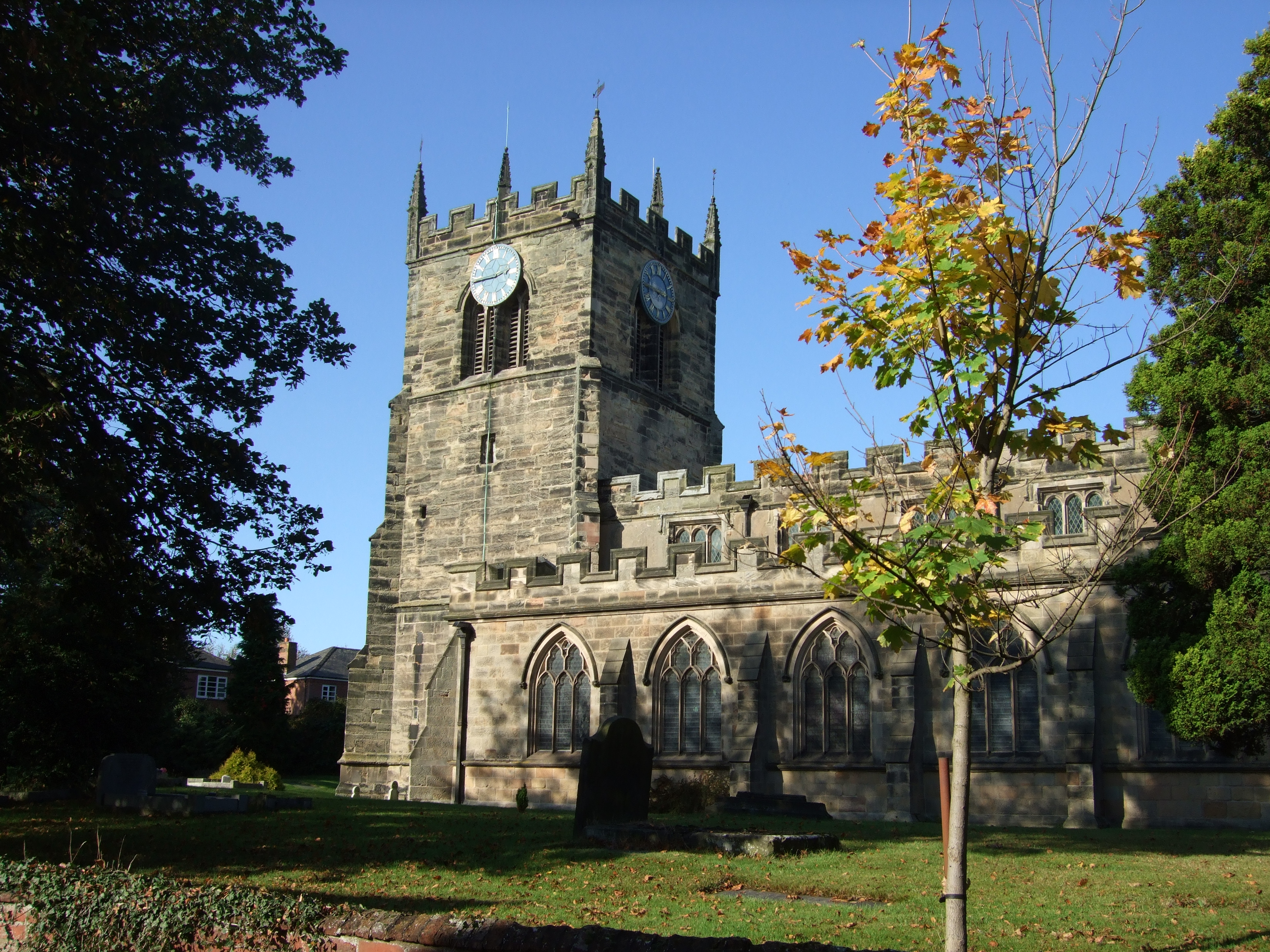 Nave and west tower of Saint James' parish church, Barton-under-Needwood, Staffordshire, seen from the south